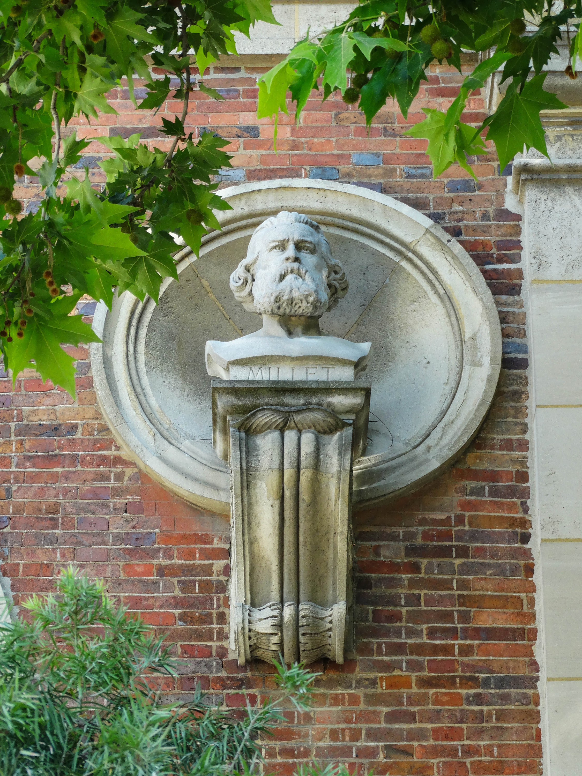 One of many busts that sit on the Orangerie within Jardin du Luxembourg, this one dedicated to Aimé Millet and was created by Emile Louis Bogino.